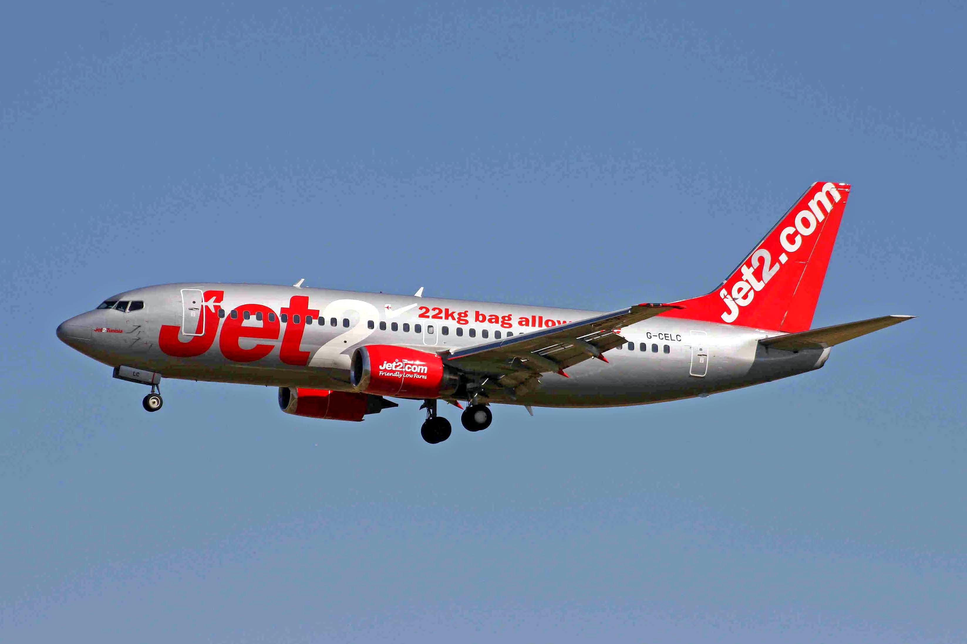 aircraft at the Palma de Mallorca airport